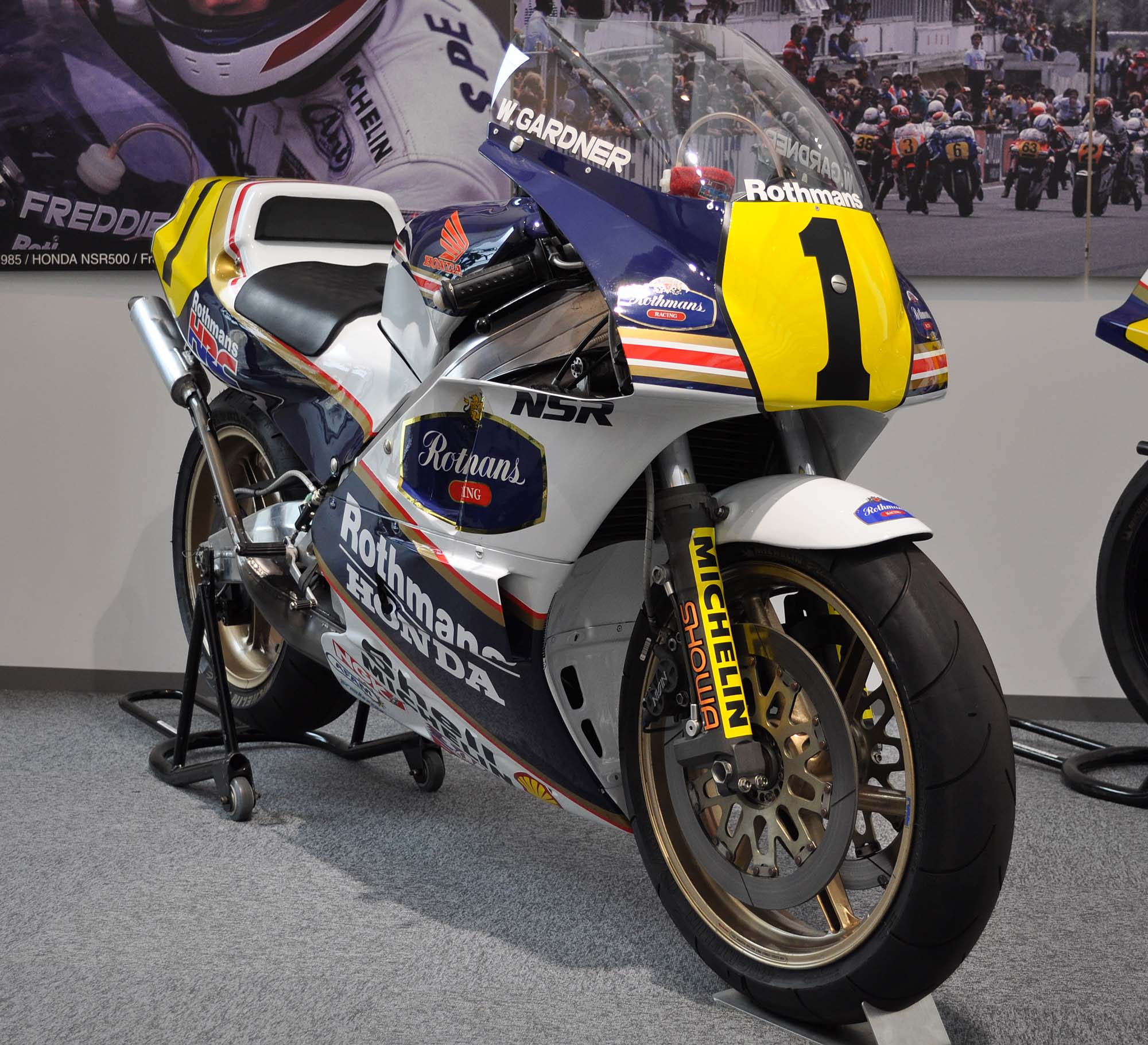 Honda NSR500 (Wayne Gardner, 1988)